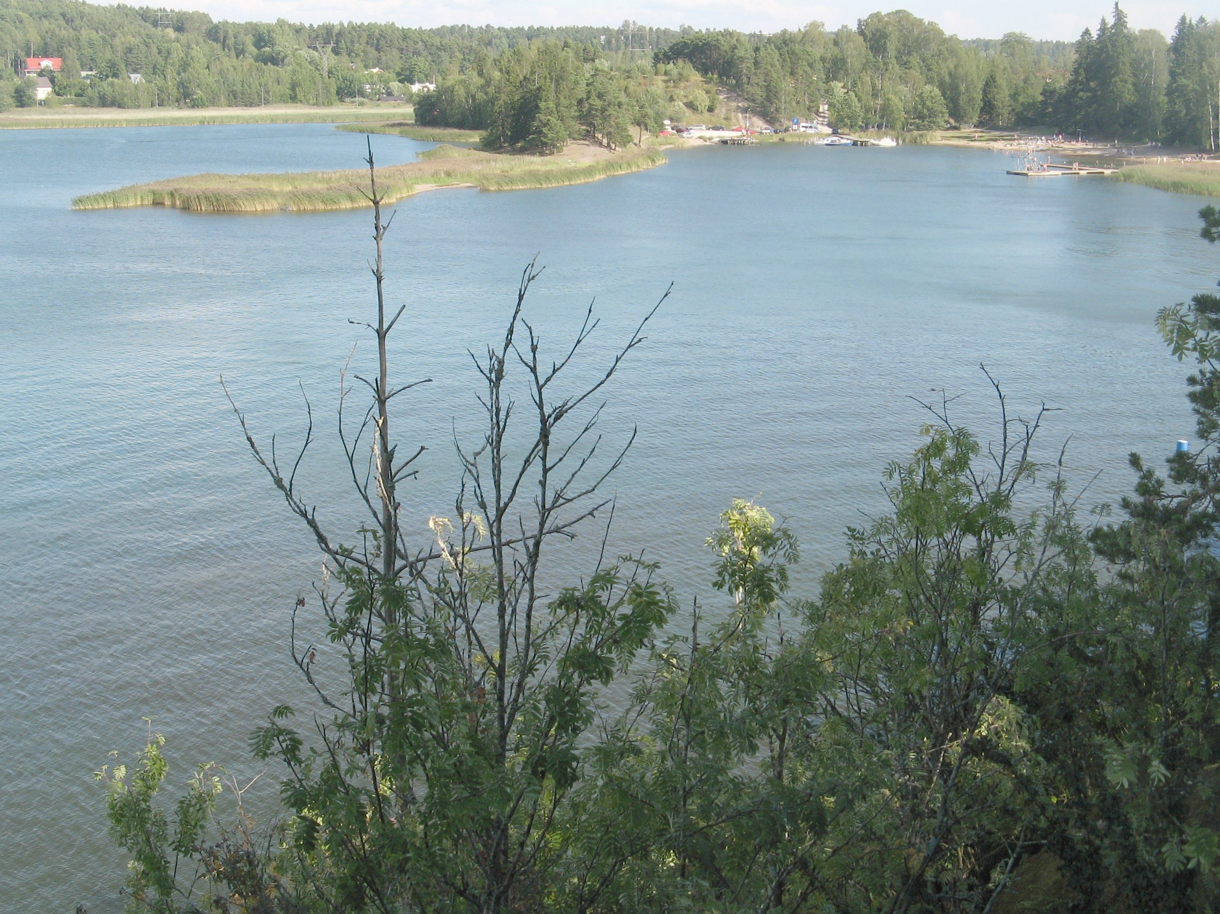 Beach in Bläsnäs, Pargas